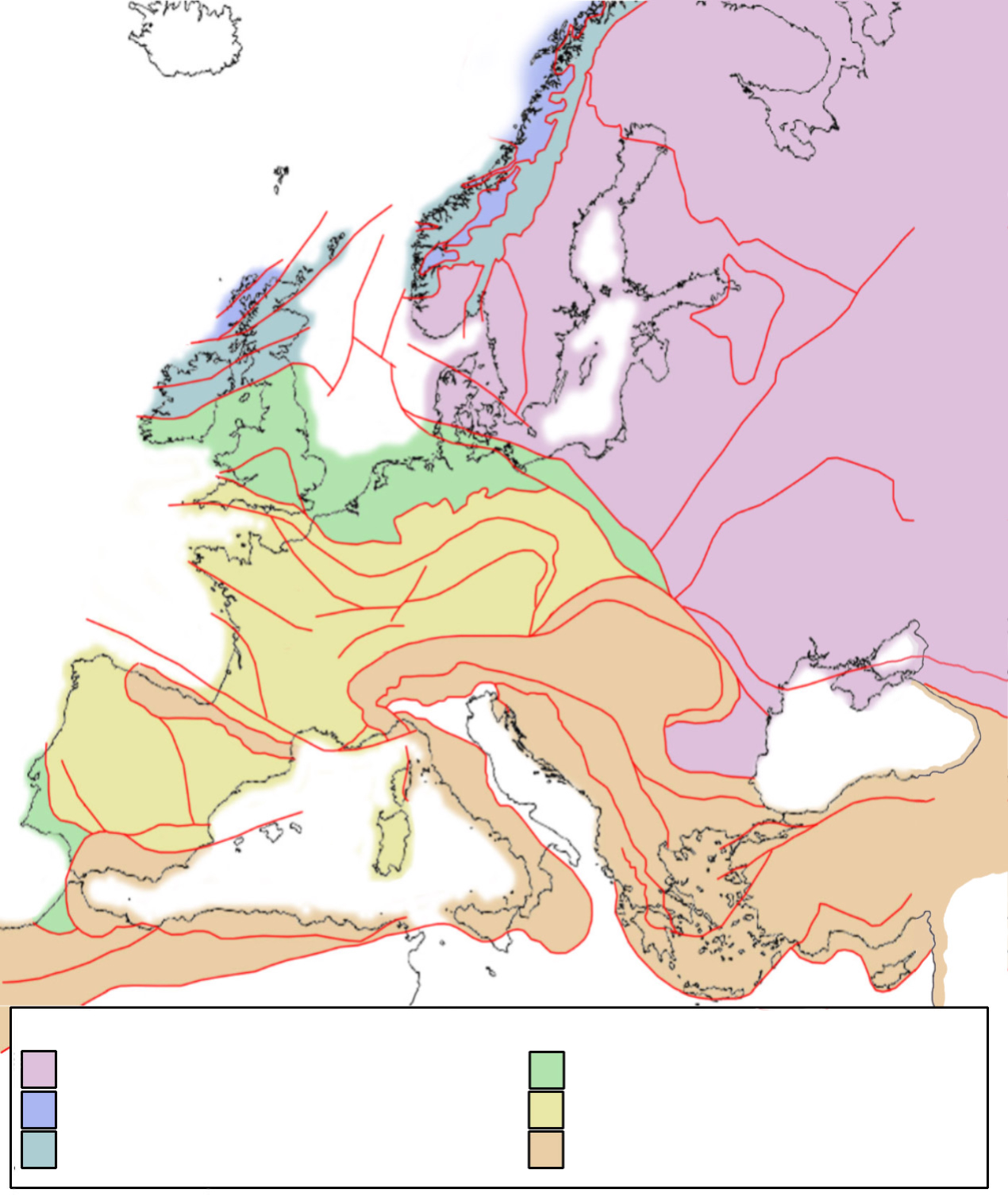 Tectonic framework map of Europe, showing the major tectonic provinces. Purple = Baltica crust; blue = Laurentia crust, deformed by Caledonian orogeny; greenblue = Baltica crust, deformed by Caledonian orogeny; green = Avalonia crust; yellow = terrains deformed by Hercynian/Variscan orogeny; orange = terrains deformed by Alpine orogeny. NOTE: see discussion page how to add text to this map.